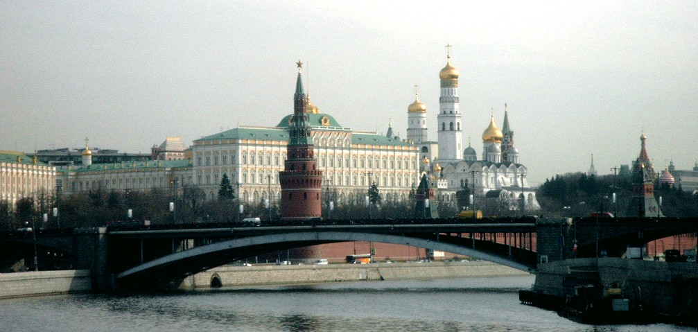 The Moscow Kremlin. Taken from the German Wikipedia.